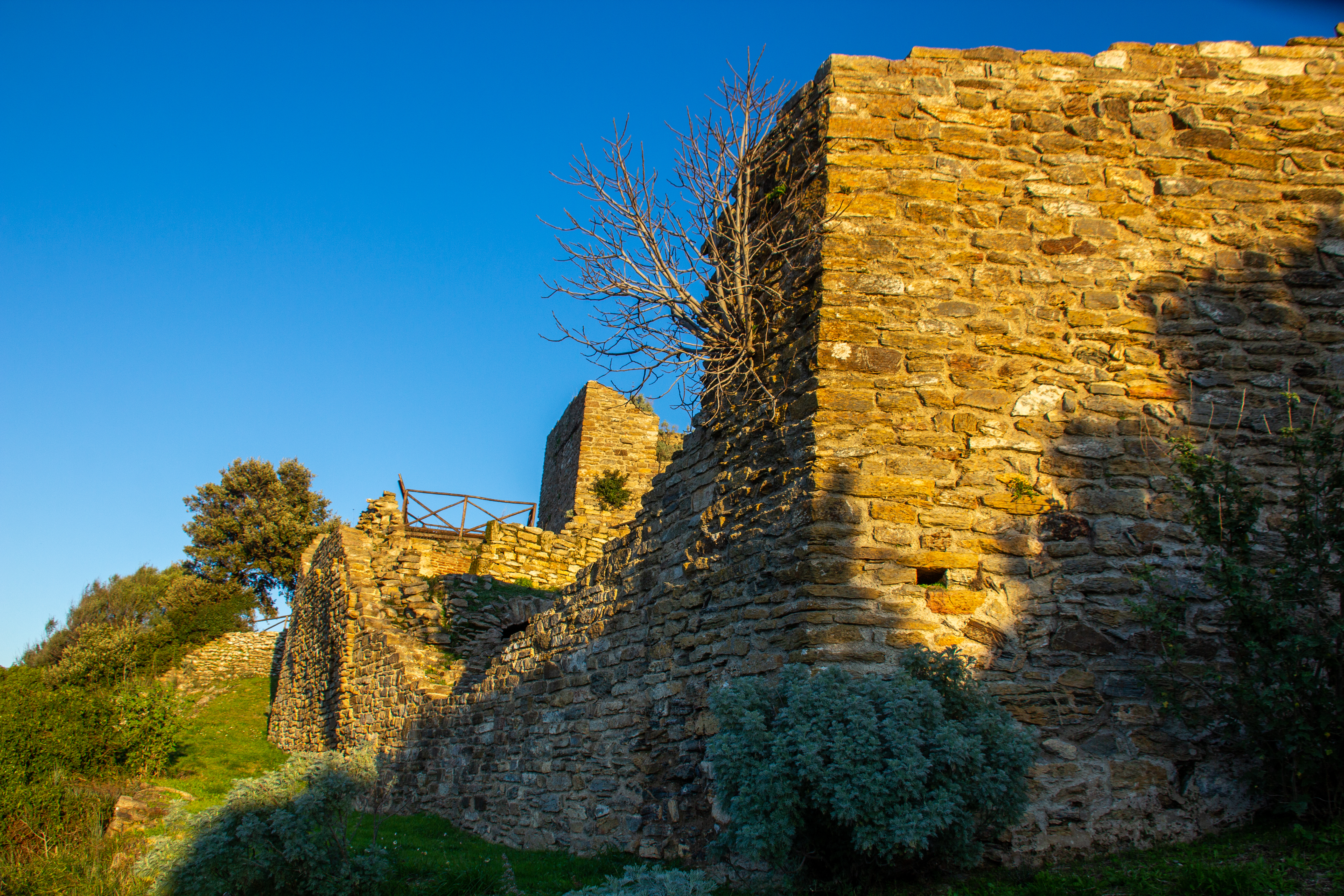 Castello di Sassai, Italy